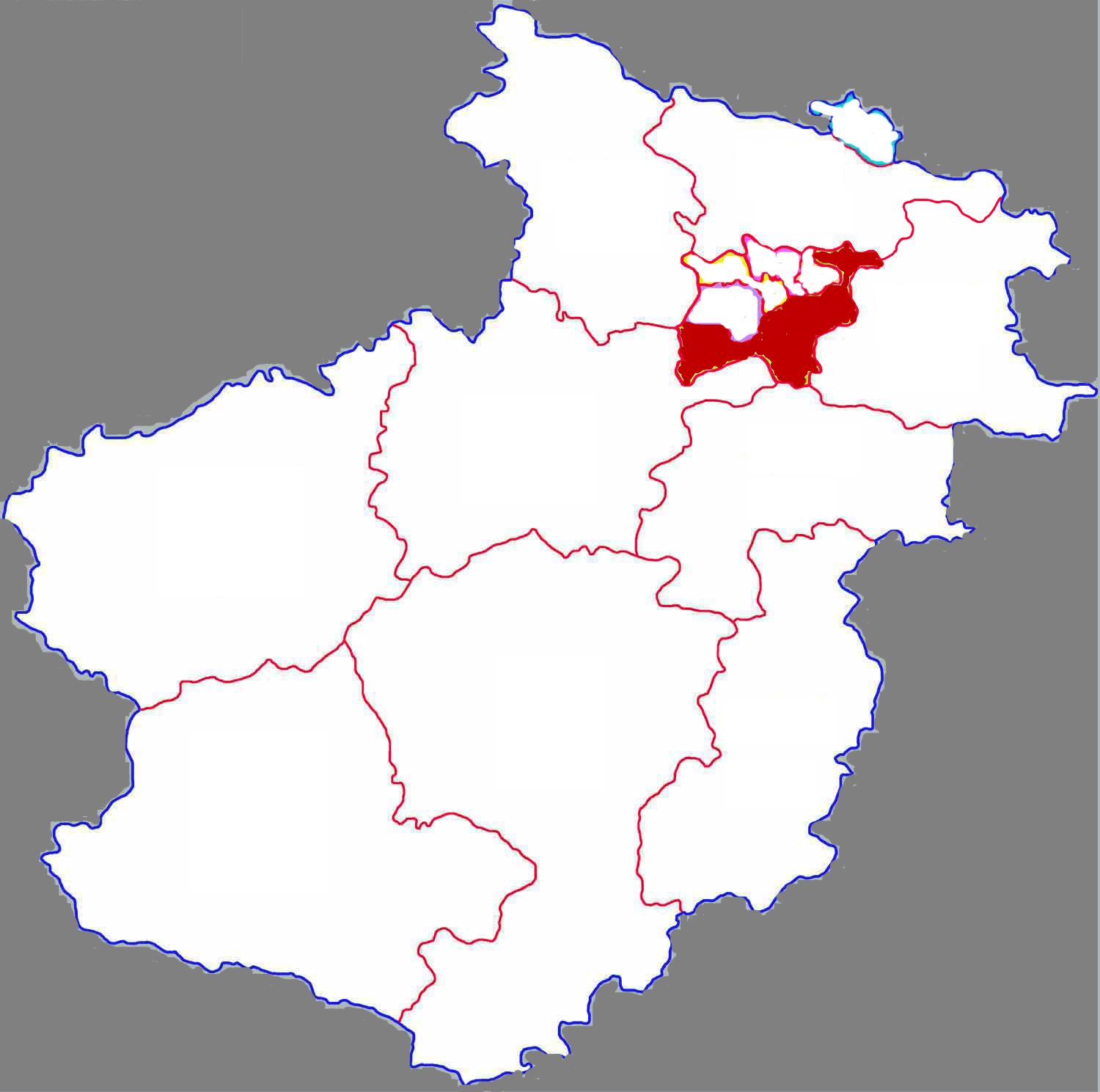 Location of Luolong district in Luoyang city, China